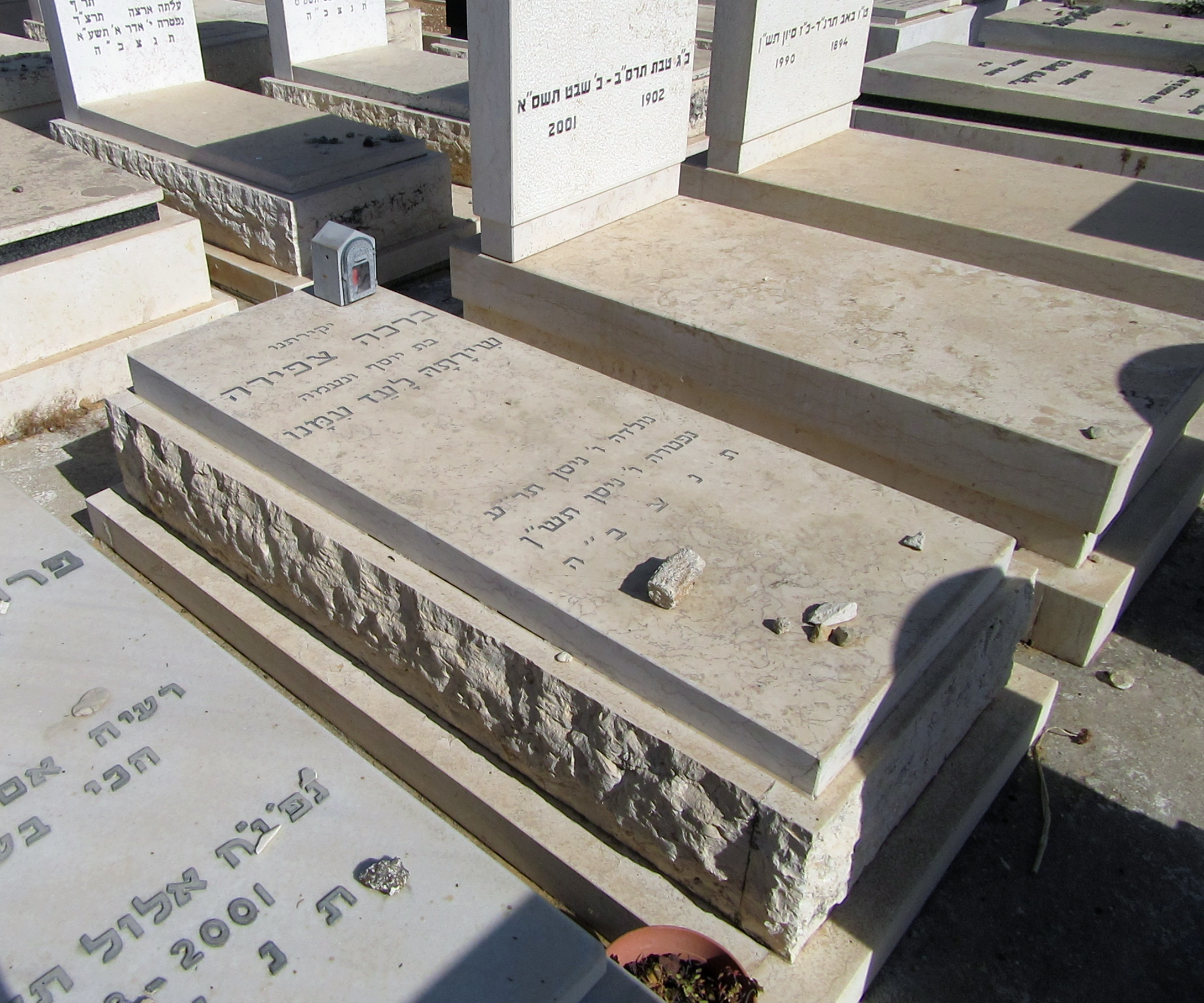 Grave of Bracha Tzfira